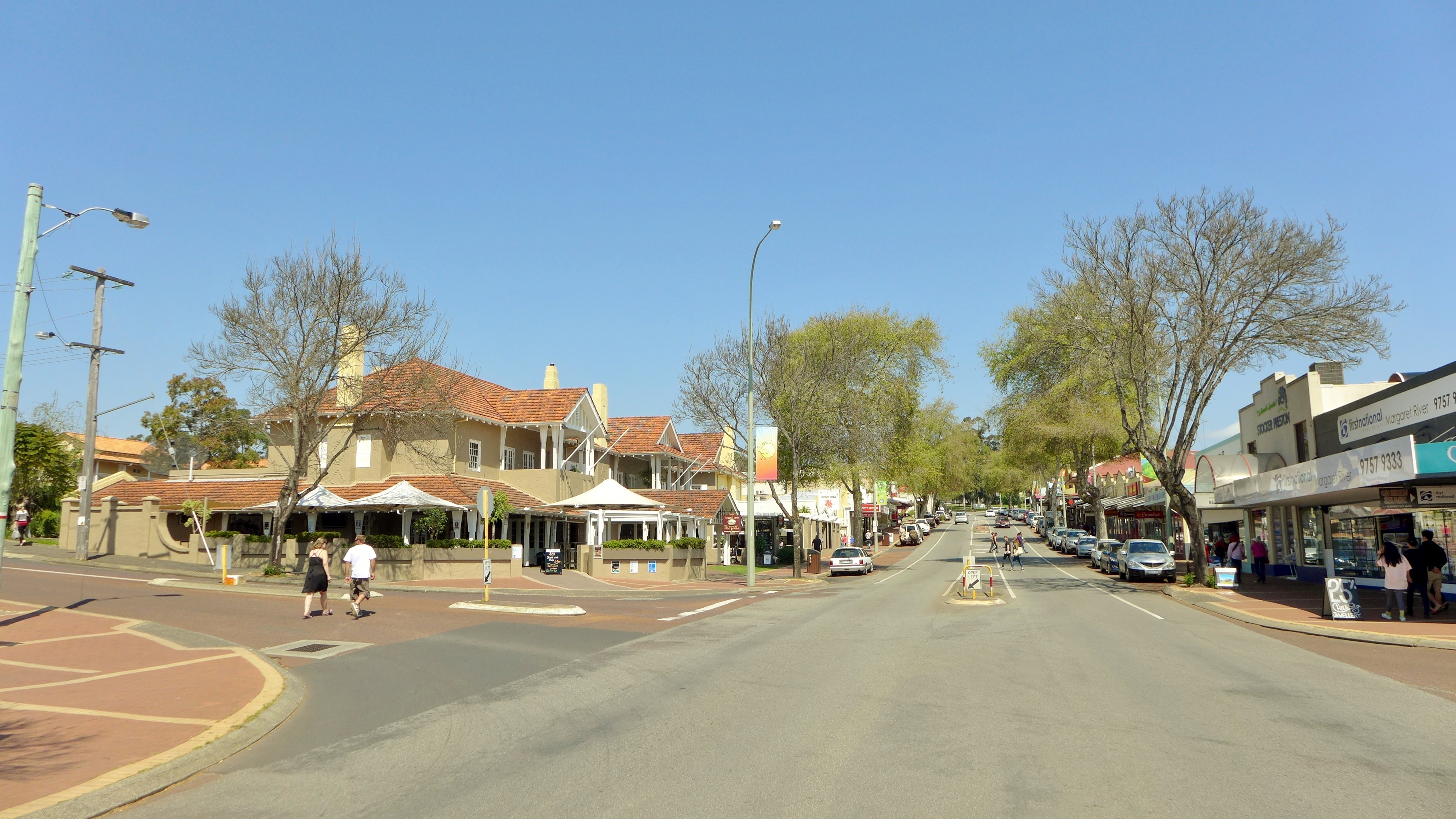 View of Bussell Highway in Margaret River, Western Australia. At left is the Margaret River Hotel.